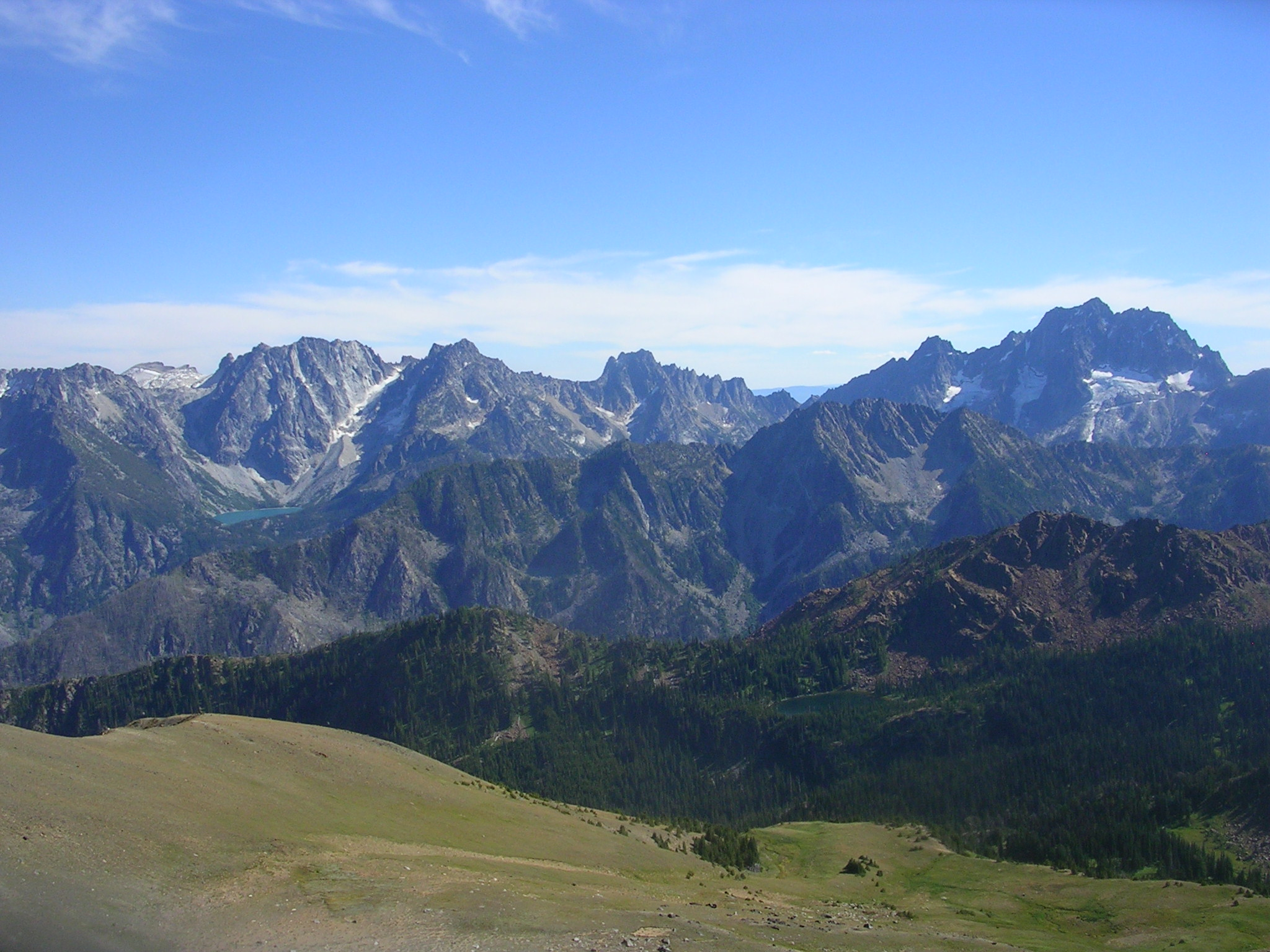 The Stuart Range from Cashmere Peak. From left to right: Little Annapurna, Dragontail Peak, (disappearing) Colchuck Glacier, Colchuck Peak, Argonaut Peak, Sherpa Peak, Mount Stuart. Colchuck Lake can be seen in the background, Caroline Lake is in the foreground.